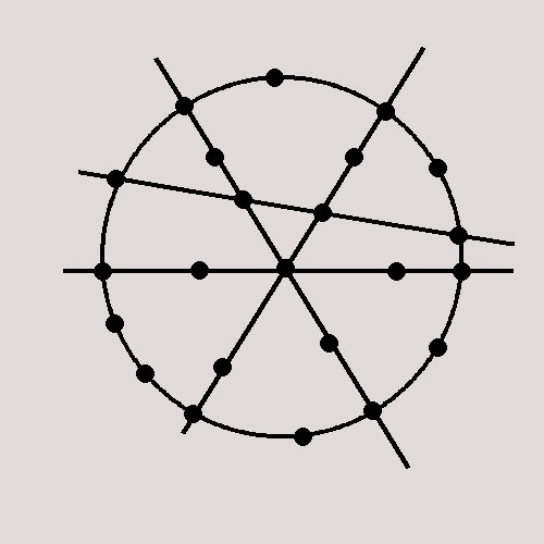 Circle-radial-system